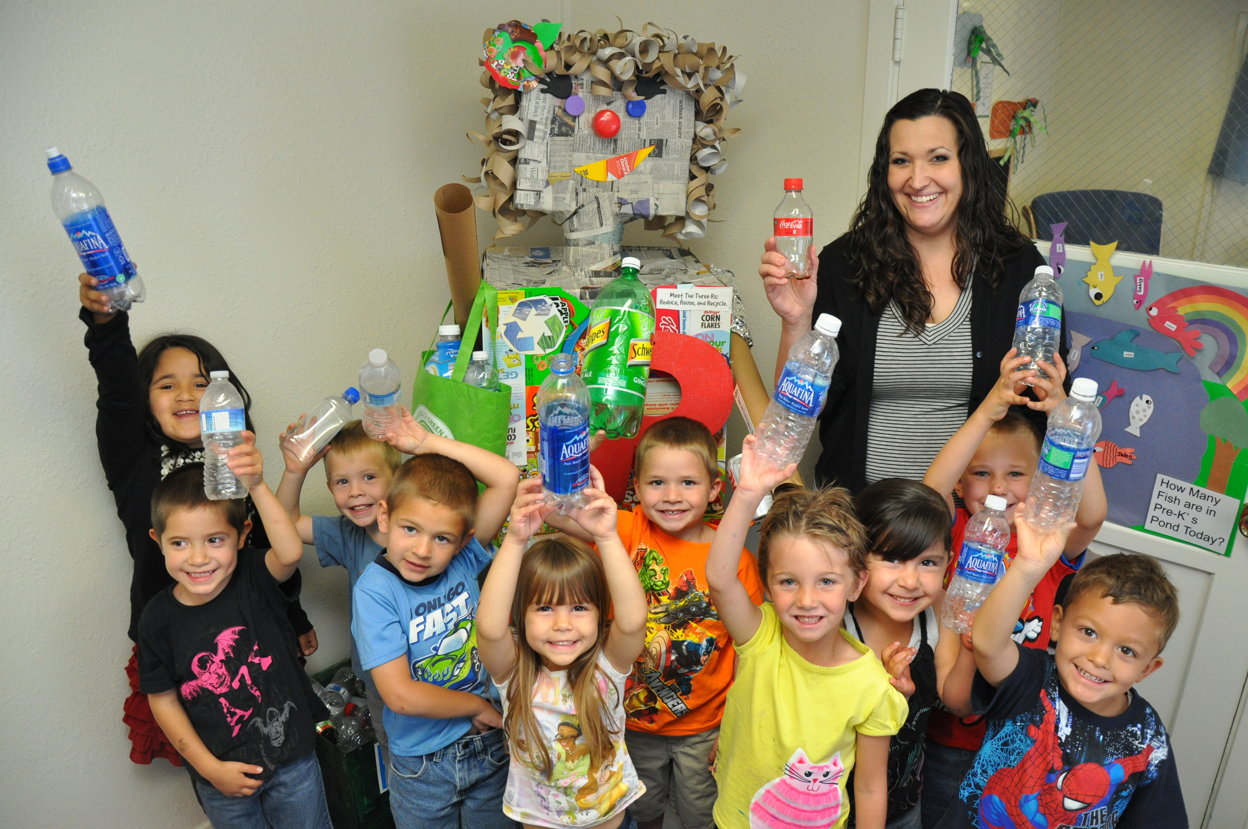 Lanell Mayberry and some of her prekindergarten class pose with their recycling project Rachel, a full sized robot made entirely of recyclable products at Marine Corps Logistics Base Barstow's Child Development Center, April 27. The class constructed Rachel while being taught about the importance of the three R's: reduce, reuse, and recycle.